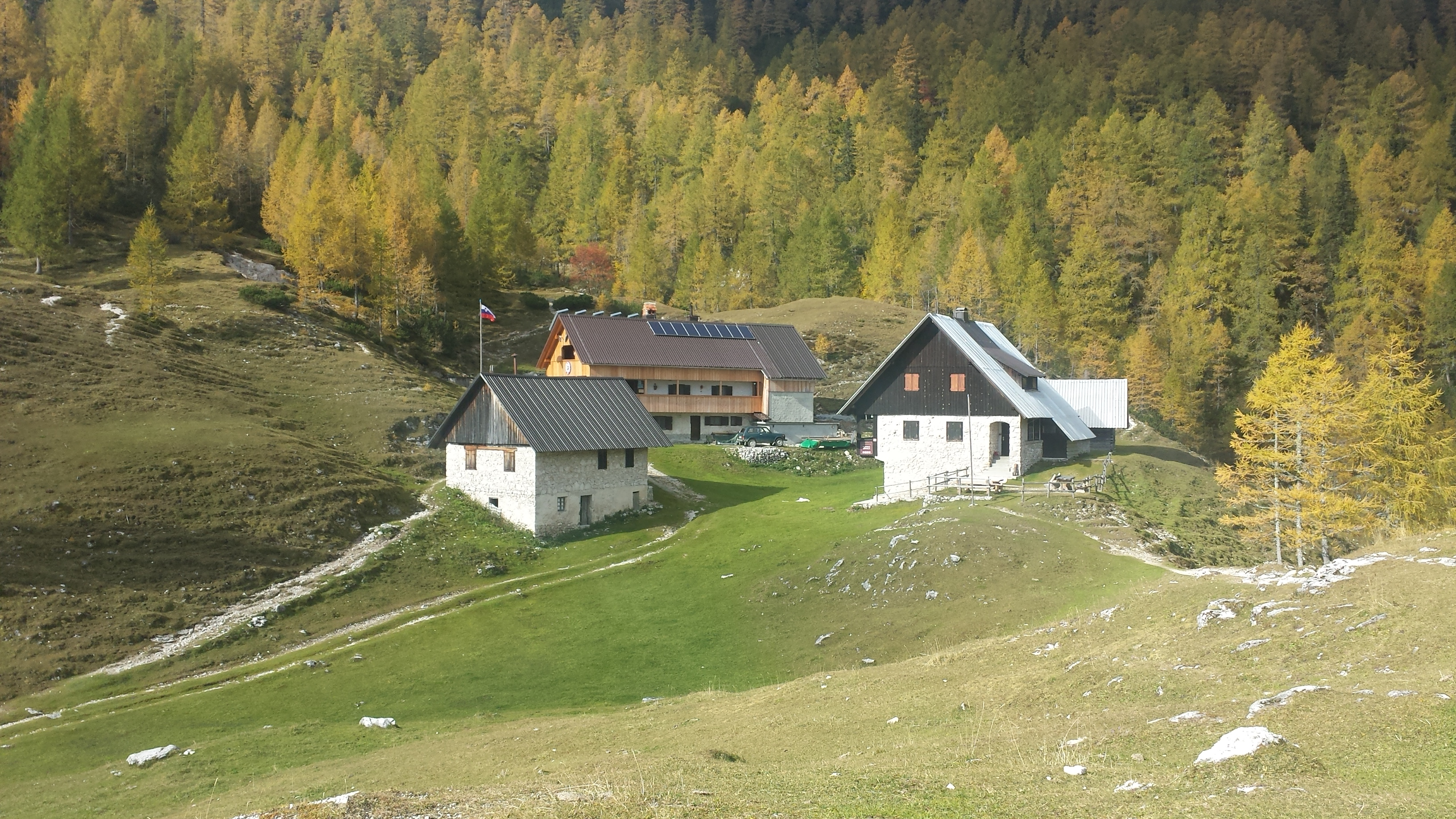 Bled Lodge at Lipanca, Slovenija.